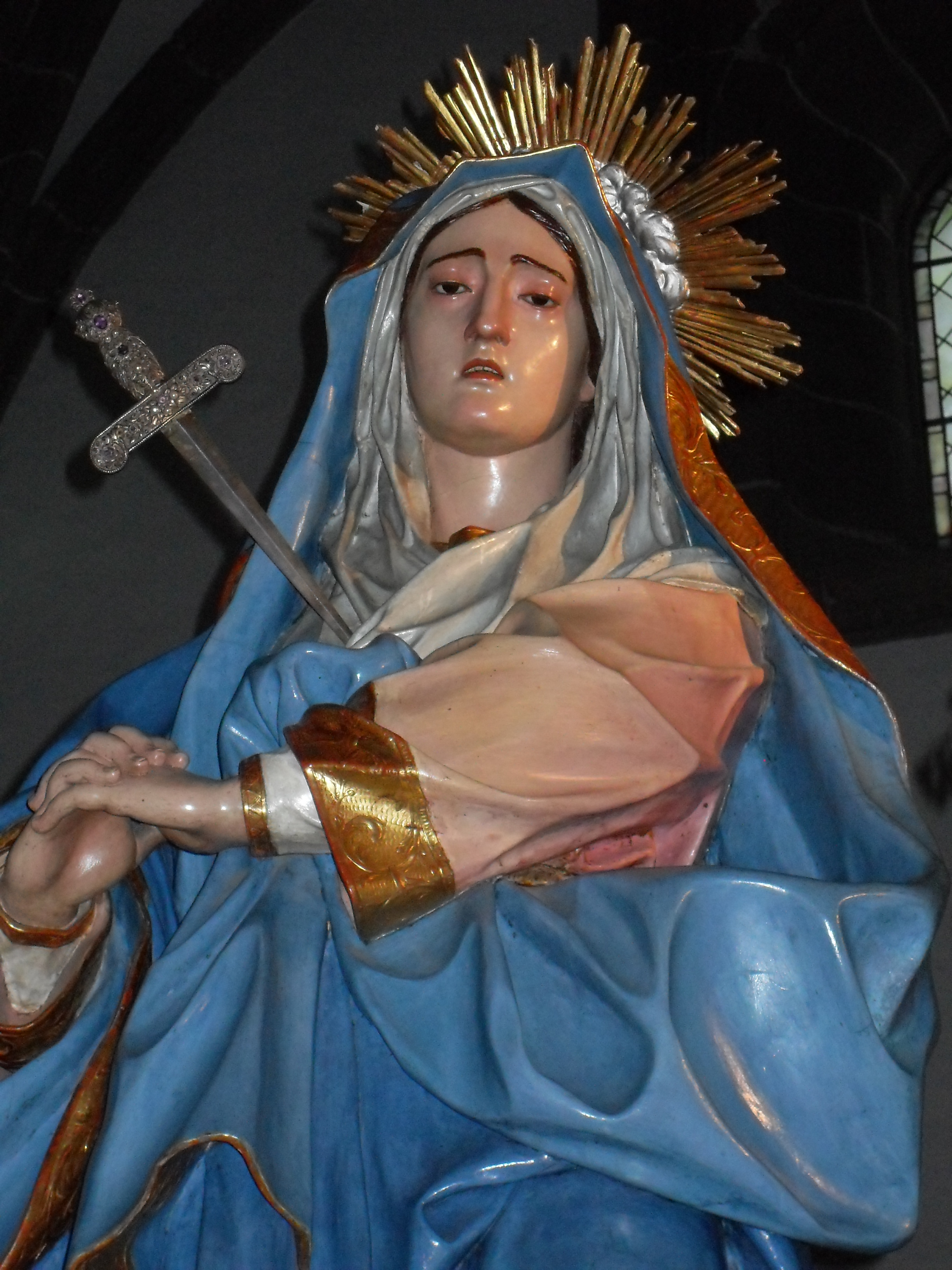 Imagen de la Virgen de Los Dolores de Luján que se encuentra en la Catedral de Canarias